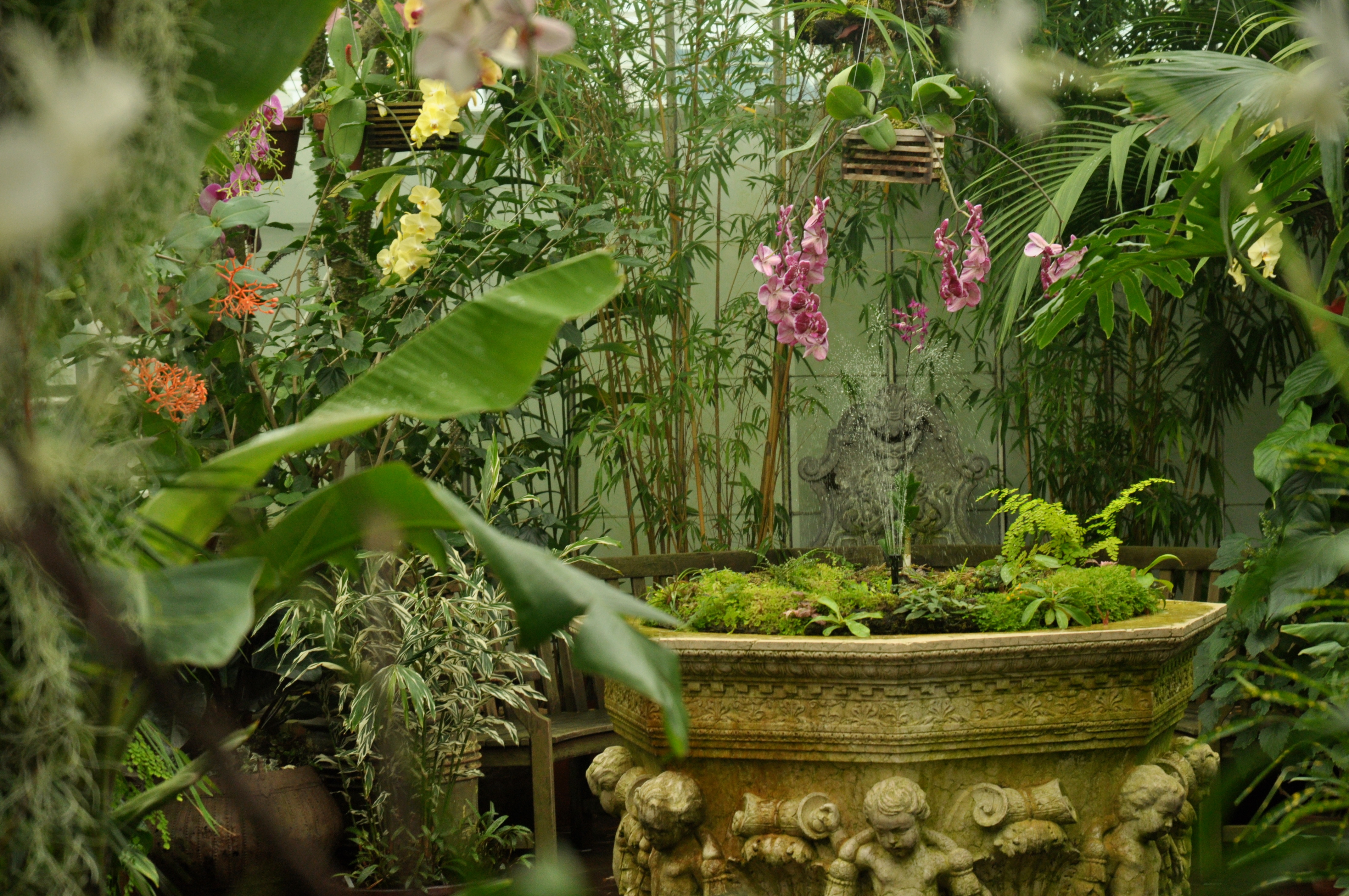 Golden Gate Park Conservatory Inside the Conservatory